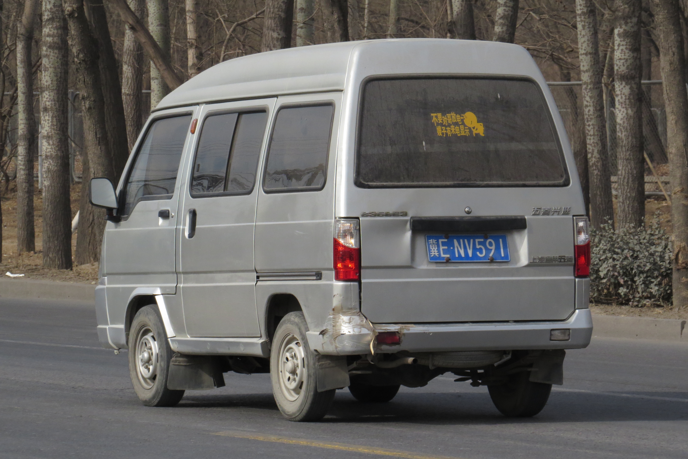 Model Wuling Xingwang.